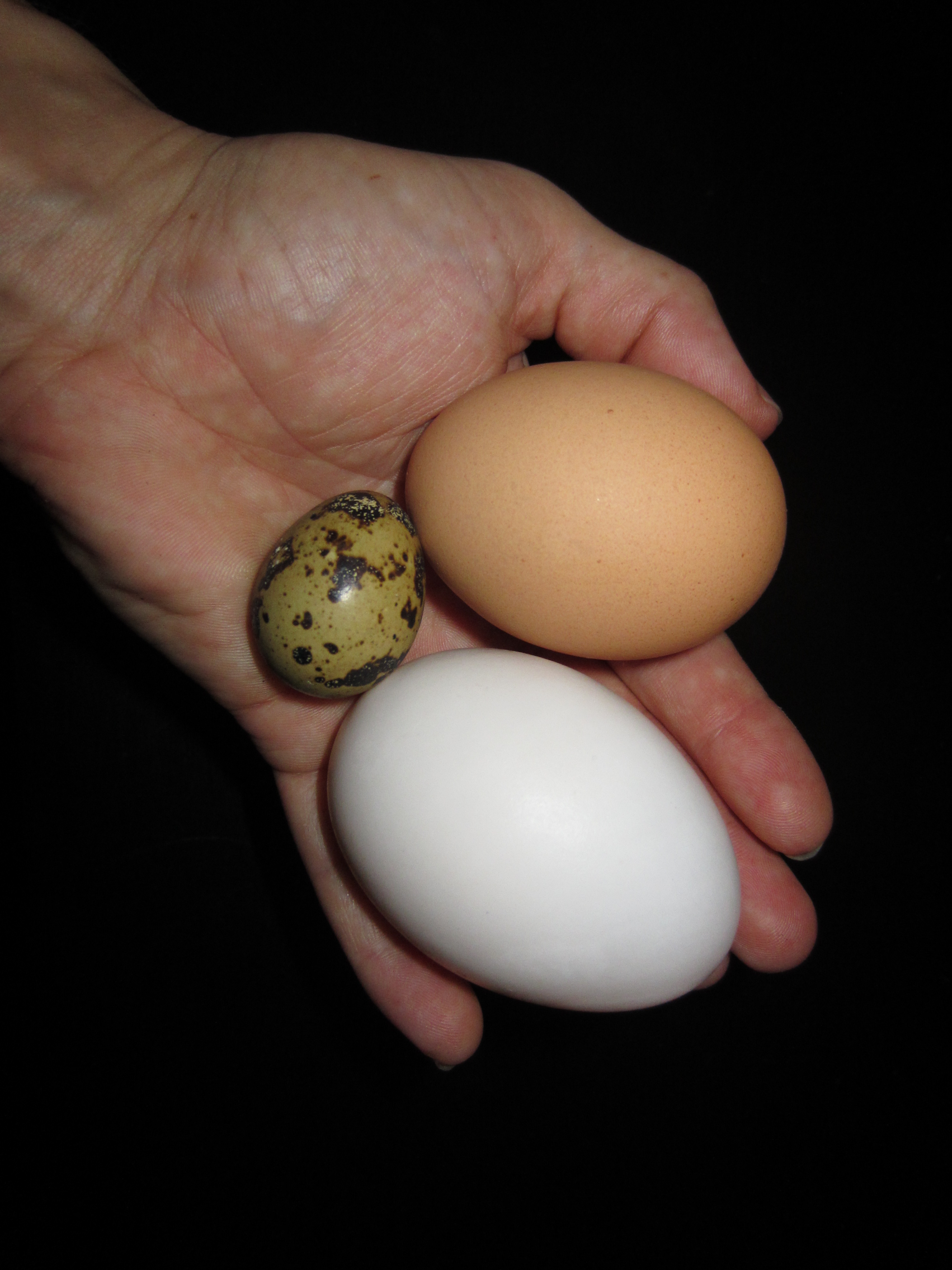 A quail egg, jumbo chicken egg (brown) and duck egg held in a small (adult female) human hand.